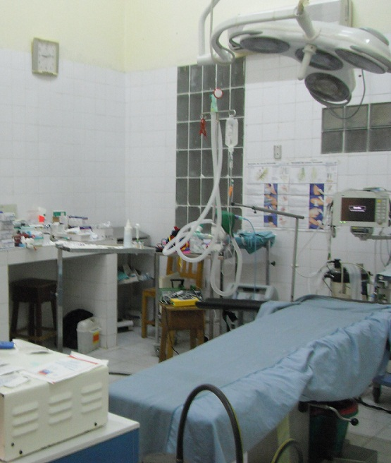 One of the theatres at the St John of God Hospital in Mabesseneh, Lunsar, Sierra Leone. See more at